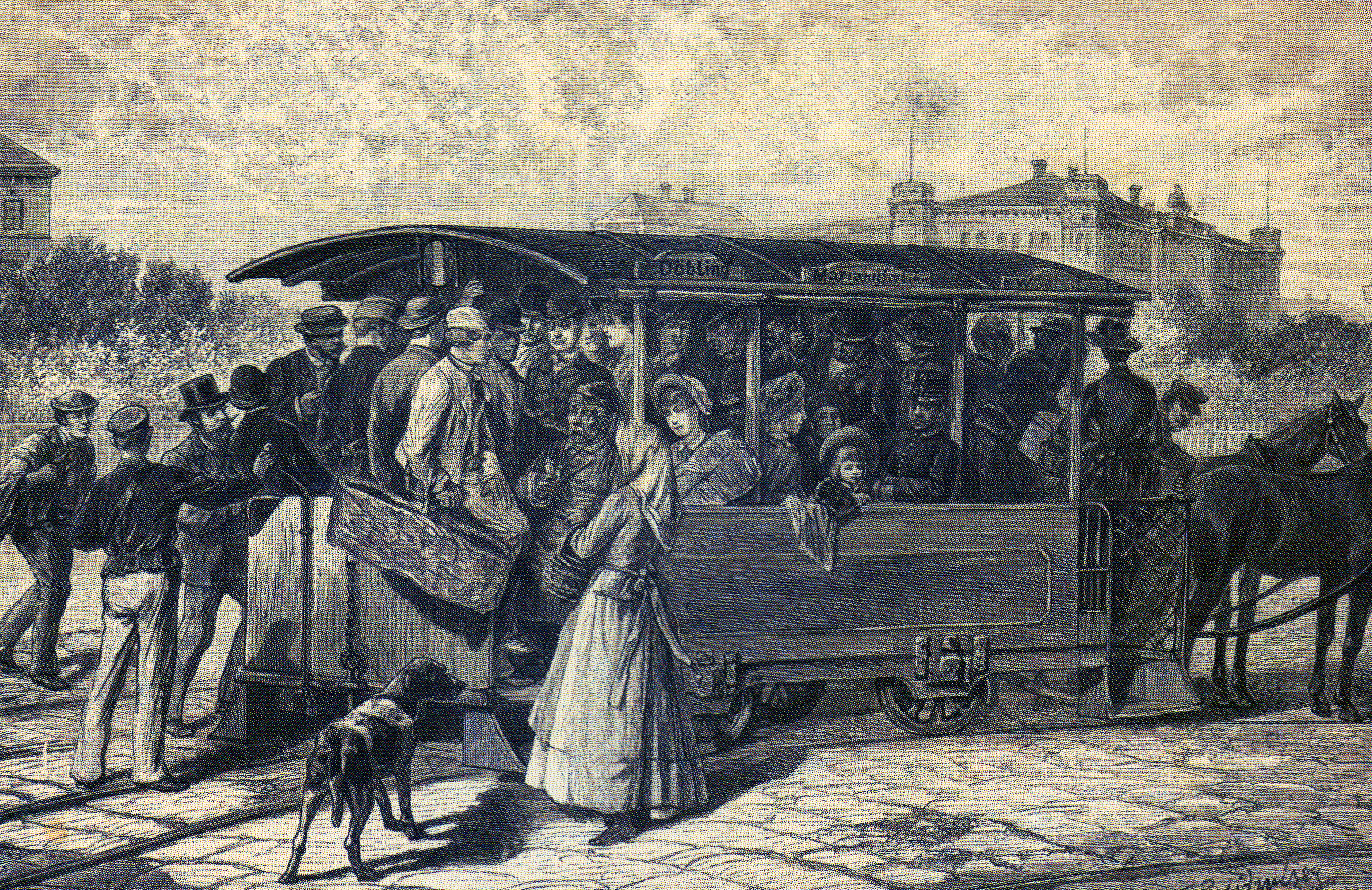 Horse-drawn tram, Vienna